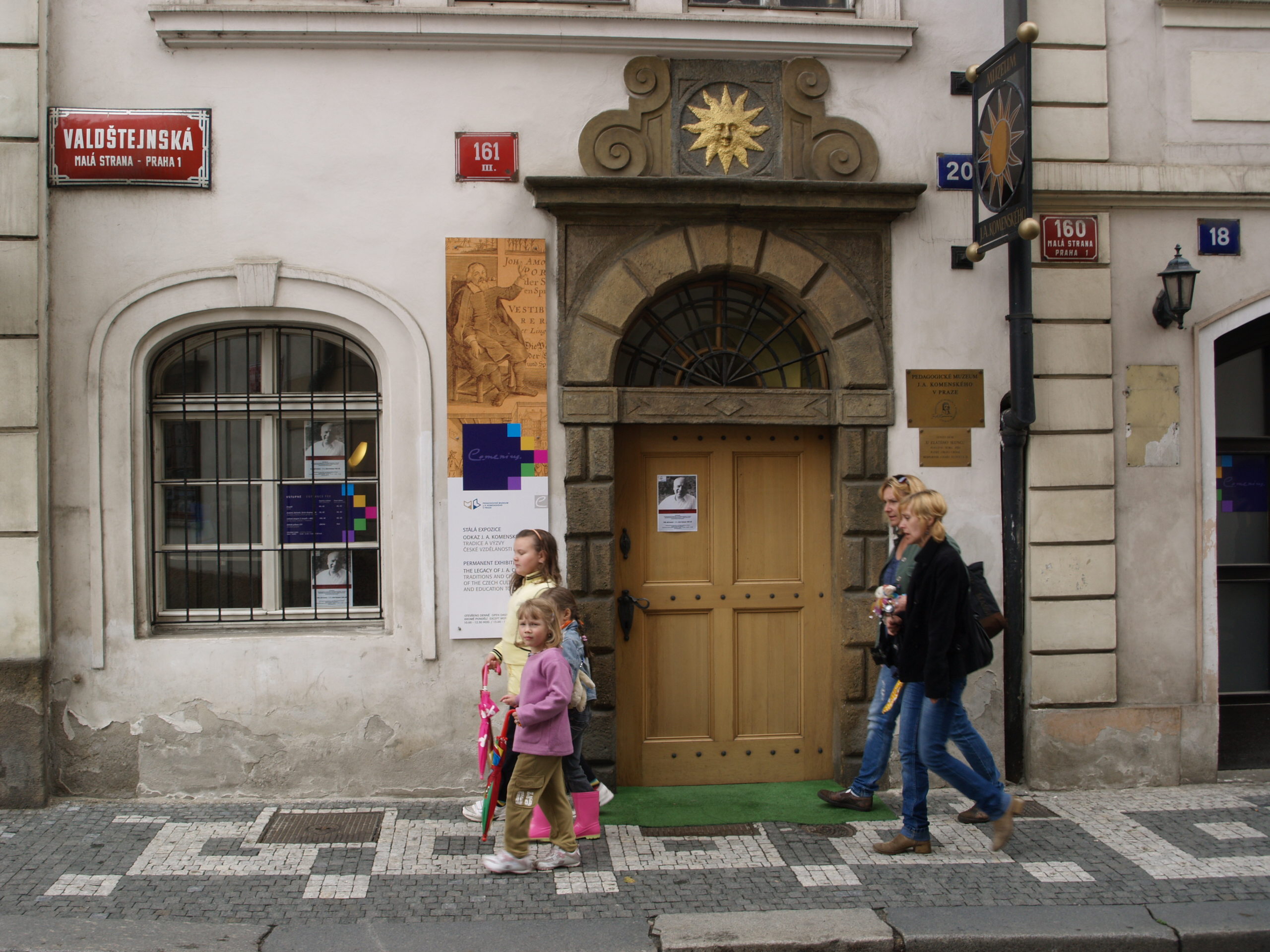 Pedagogical museum of J. A. Comenius in Prague - main entrance - Valdstejnska 20, Prague, Czech Republic